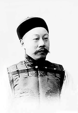 Liang Dunyan (1858 - 1924)